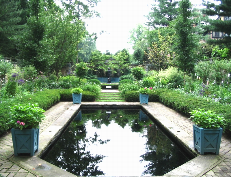 The reflecting pool at Stan Hywett Hall in Akron, Ohio